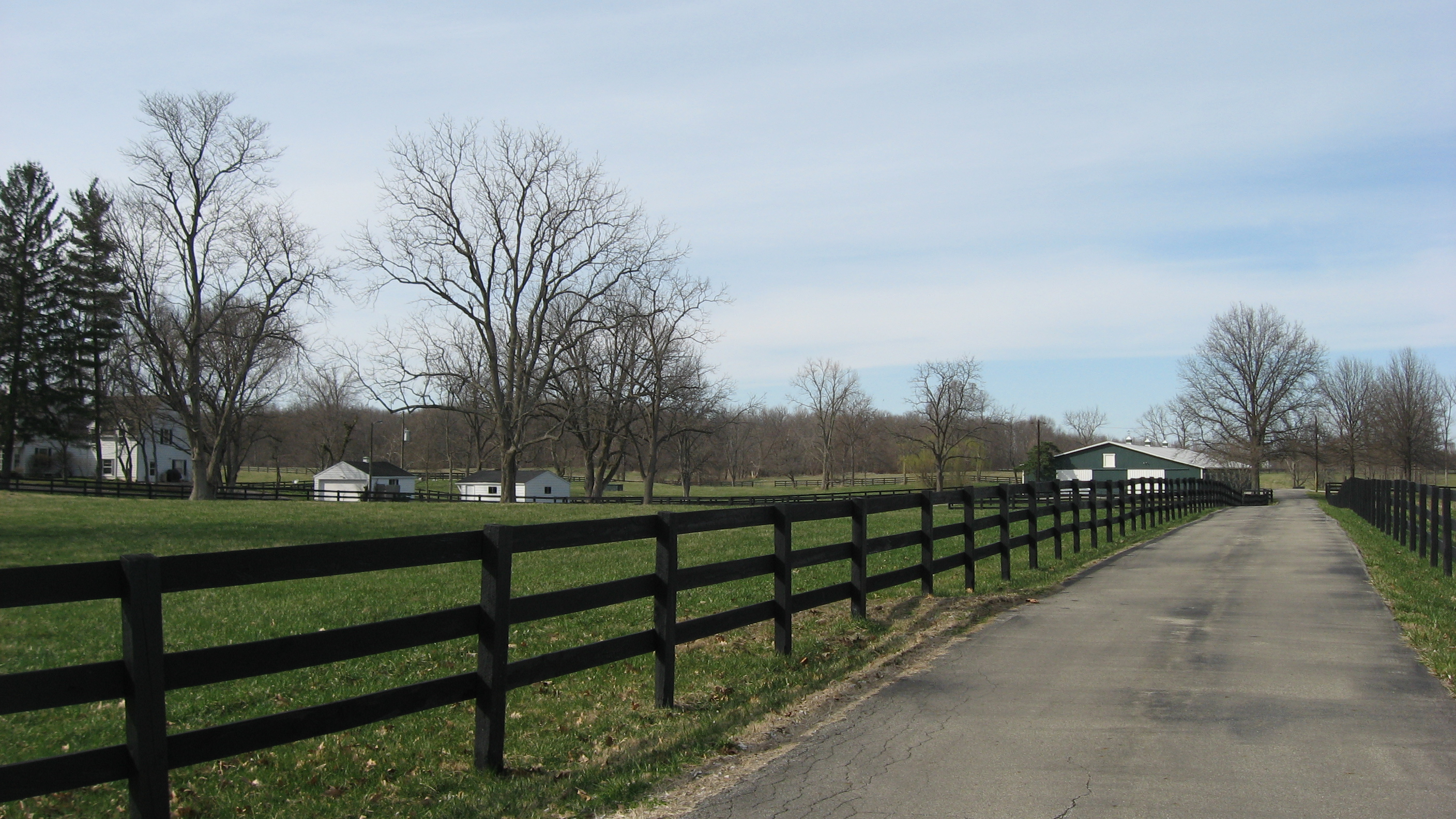 Buildings on the northern side of 96th Street east of Cooper Road in Eagle Township, Boone County, Indiana, United States. This property is part of the Traders Point Eagle Creek Rural Historic District, a historic district that is listed on the National Register of Historic Places.